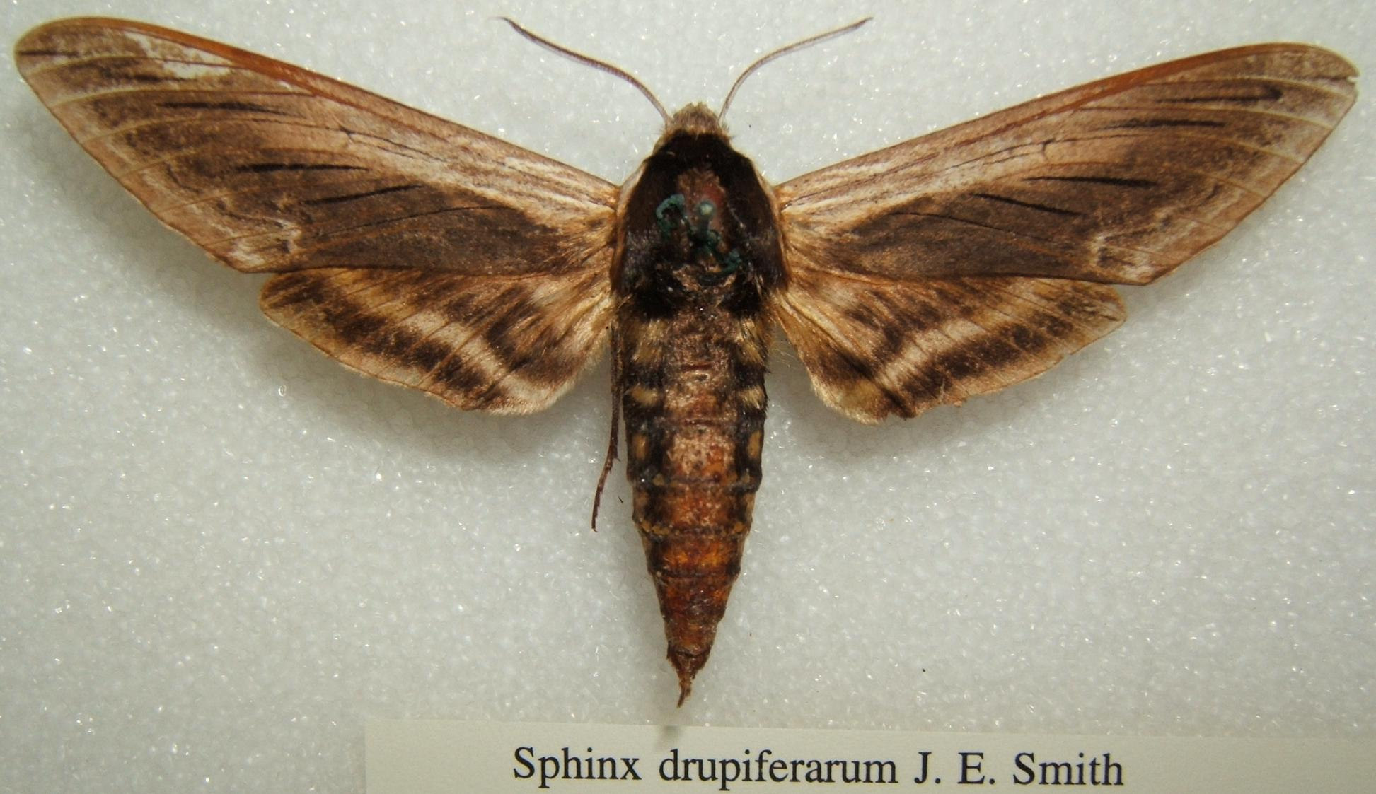 Sphinx drupiferarum adult taken by Shawn Hanrahan at the Texas A&M University Insect Collection in College Station, Texas.